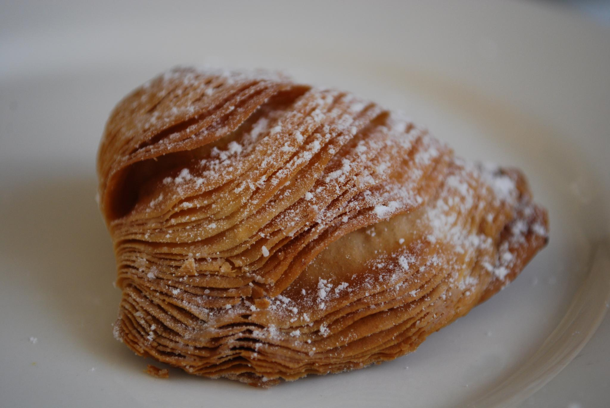 Sfogliatella at Caffe Vini Spuntini Shop B142 / Chadstone Shopping Centre 1341 Dandenong Rd Chadstone 3148